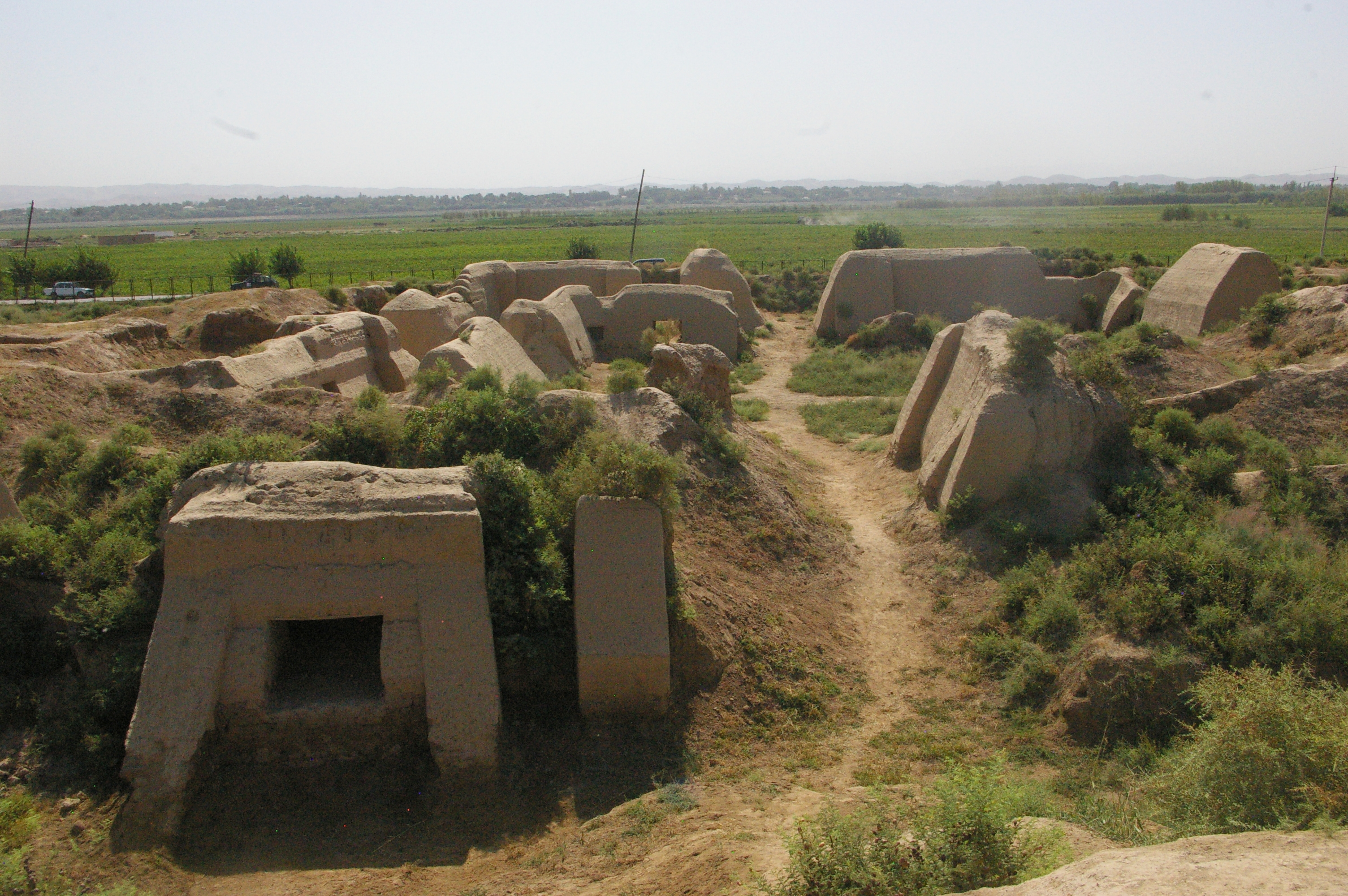 Budhistic cloister of Ajina-Tepa, near Kurgan-Teppa, Tajikistan.